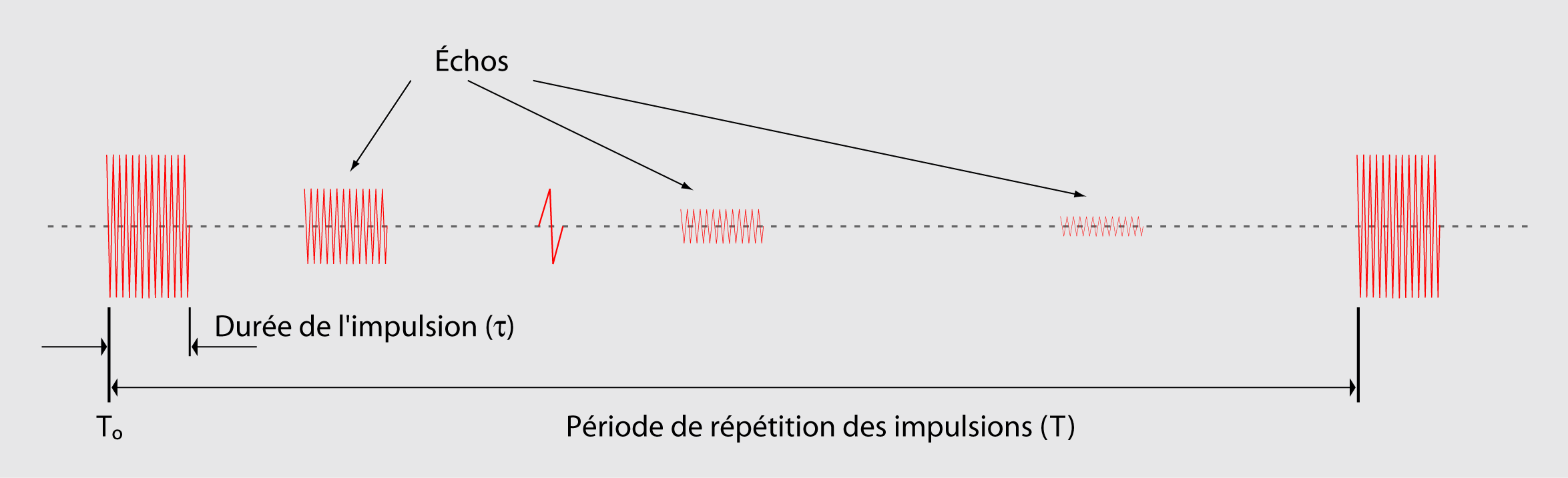 Time domain diagram of the signal within the pulses of carrier in a radar transmission and echoes after TJC (English WP)